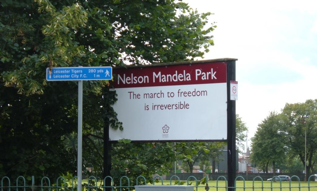 A sign in Nelson Mandela Park, Leicester, UK, stating: "The march to freedom is irreversible".